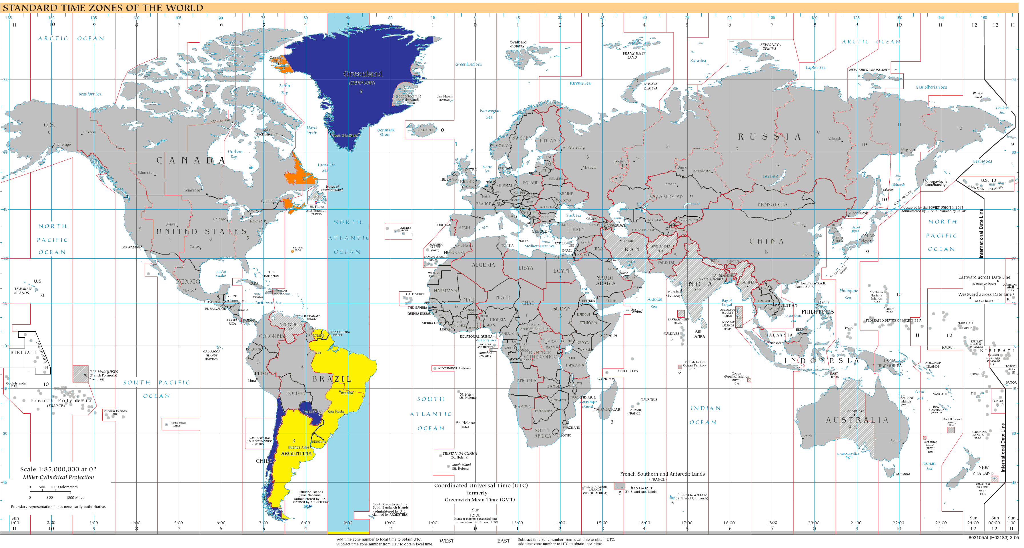 World map of time zones as of 2008, on the Miller Cylindrical Projection and with highlighted UTC-3 zone. Dark Blue - UTC-3 during Northern Winter / Southern Summer Orange - UTC-3 during Northern Summer / Southern Winter Yellow - UTC-3 all year round Light Blue - UTC-3 sea areas